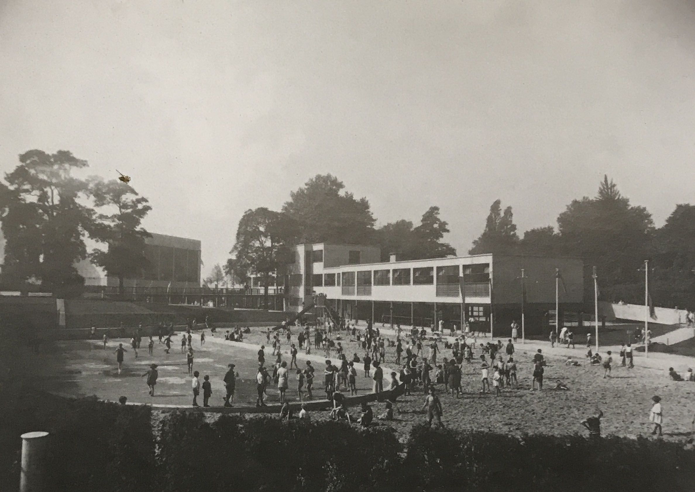 Building built by the Liege architect group called Equerre, built for the international exhibition of 1939